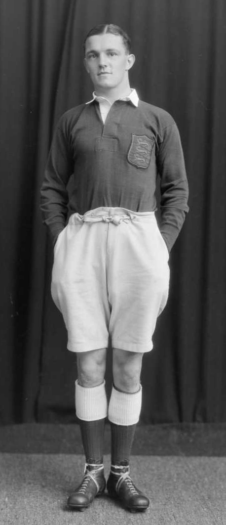 Harry Bowcott, member of the British Lions rugby union team